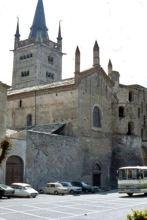 Susa, Piedmont is in northern Italy. The Cathedral was bulit around 1100 and the current structure is Romanesque style. The town has a population of 6,638 and was founded by the Gauls in 1st century AD. Piedmont is a region of NW Italy, in the foothills of the Alps; capital, Turin. Dominated by Savoy from 1400, it became a part of the kingdom of Sardinia in 1720. It was the centre of the movement for a united Italy in the 19th century. "Piedmont" The New Zealand Oxford Dictionary. Tony Deverson. Oxford University Press 2004. Oxford Reference Online. Oxford University Press.